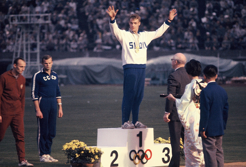 Gergely Kulcsár, Jānis Lūsis and Pauli Nevala at the 1964 Olympics